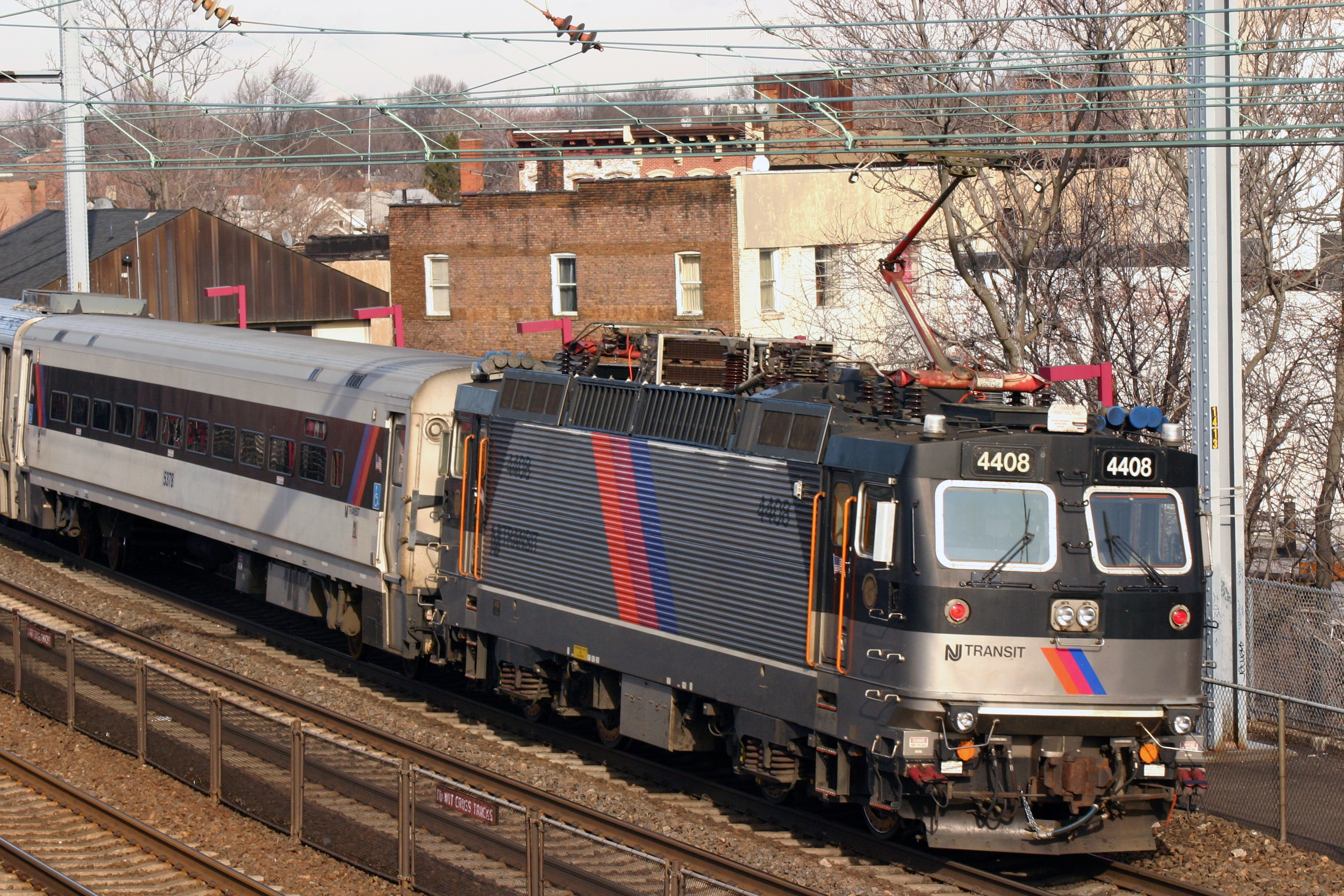 NJT ALP-44 #4408 pushes an eastbound train into Elizabeth station.